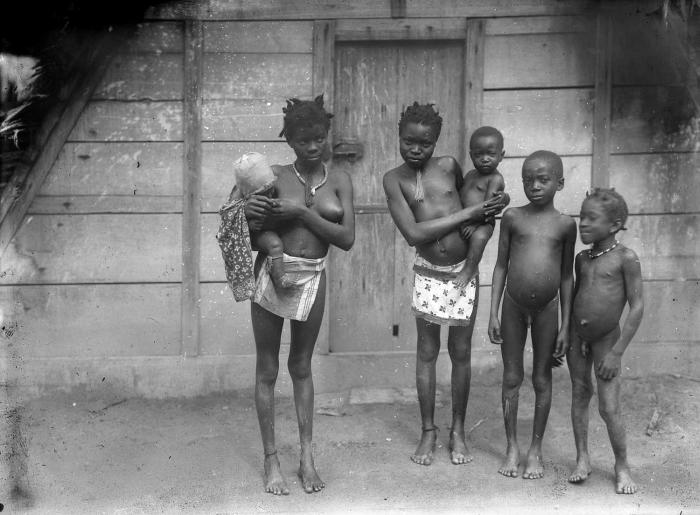 Negative. Two young girls, "Kwei uman ', with babies on their sides. Next to them are two boys together. The two girls wear Kwei, a cloth that covered their genitals. Wearing a Kwei indicates that the girls are not yet mature. Between their 15th and 18th years were girls festively initiated into adult woman. The girls themselves never found the initiation nice because they had to meet the demands made. To a woman from the time of initiation Also they had to behave like a grown woman, which meant: self-catering, cultivate their agricultural plots, live independently and are no longer dependent preparing your parents. The village Malobbi was big but is almost deserted now, most people are drawn to French Guyana .. Group Portrait with Aukaner Maroon children in Manlobbi